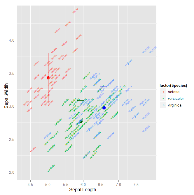 A Fisher's iris sample spread out in three groups by sepal length and width, the barycenter of each group and error bars along the sepal width dimension calculated with standard error in this dimension.